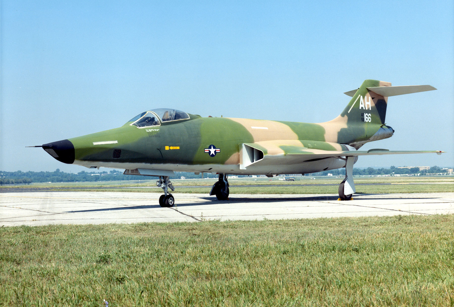 A U.S. Air Force McDonnell RF-101C-40-MC Voodoo (s/n 56-166) at the National Museum of the United States Air Force. It wears the markings of the 45th Tactical Reconnaissance Squadron, 460th Tactical Reconnaissance Wing, which was based at Tan Son Nhut Air Base, Vietnam, during the Vietnam War.